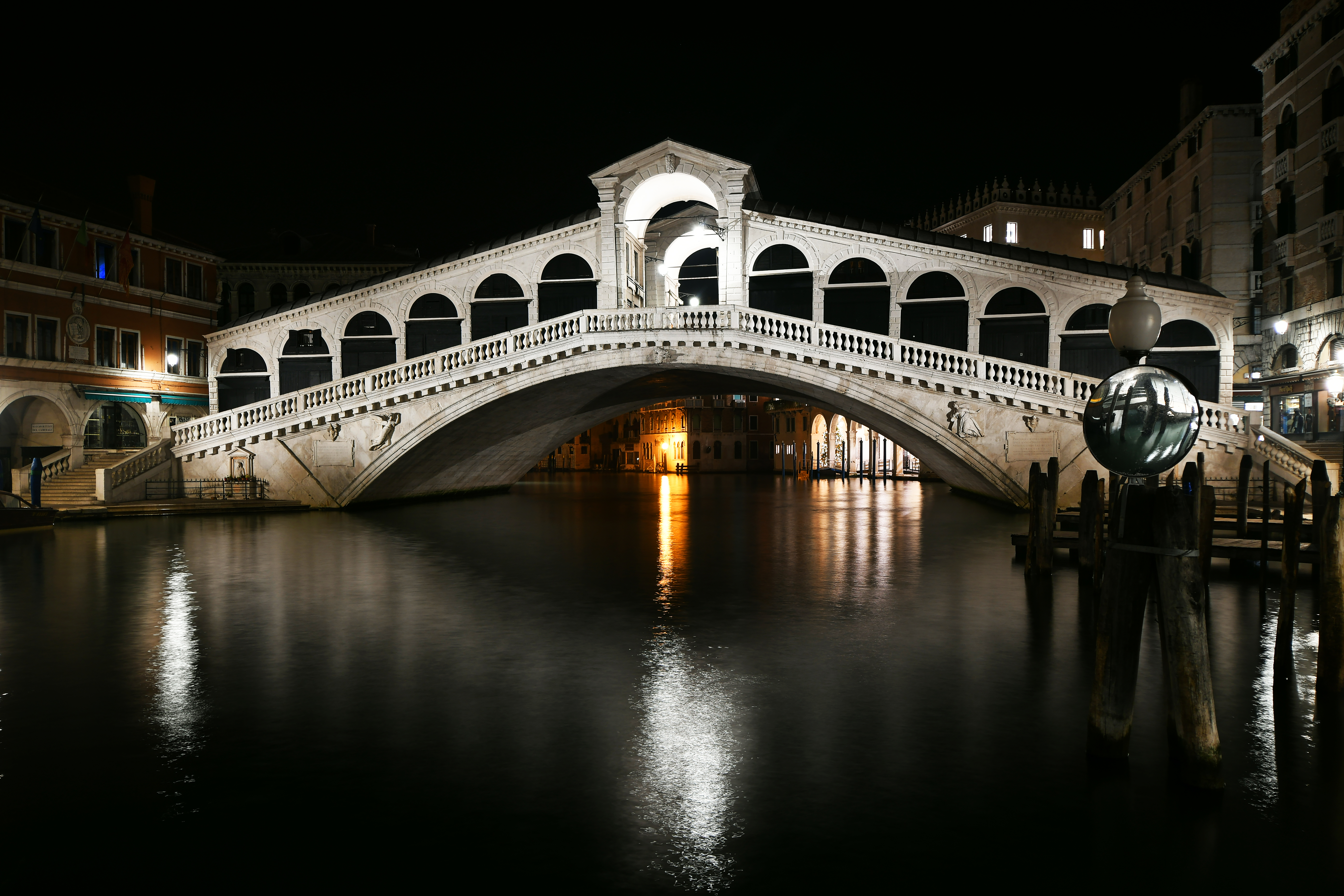 Rialto Bridge at night. Venice, Italy